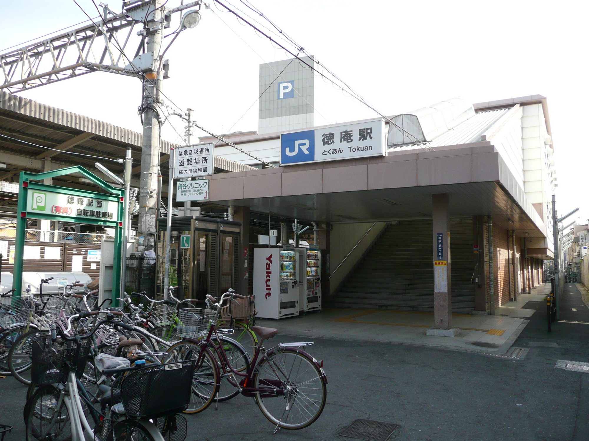 West Japan Railway,Gakkentoshi-Line,Tokuan Station west entrance. / 学研都市線徳庵駅西口